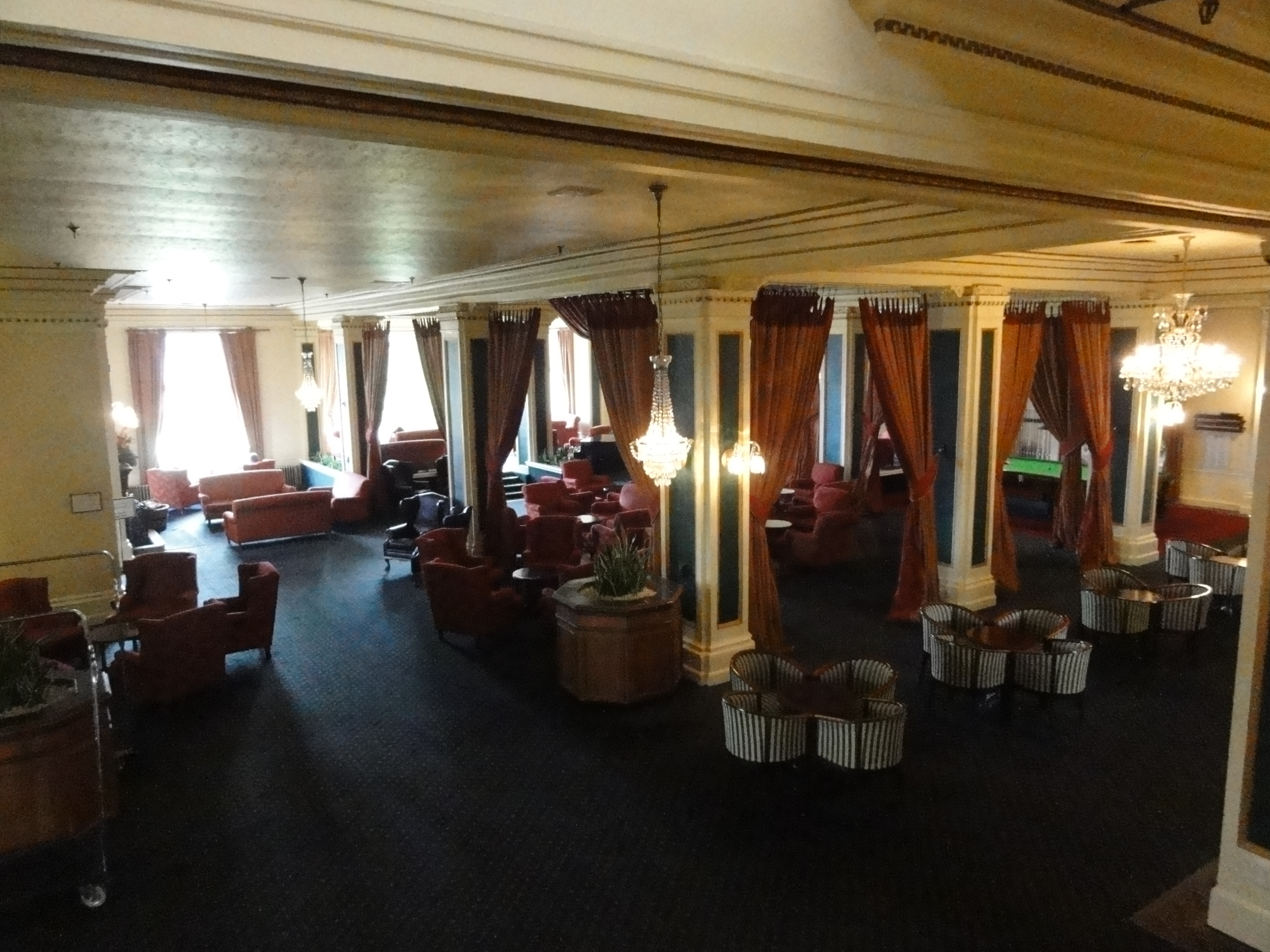 Chateau Tongariro hotel lobby, Whakapapa Village, Tongariro National Park, New Zealand